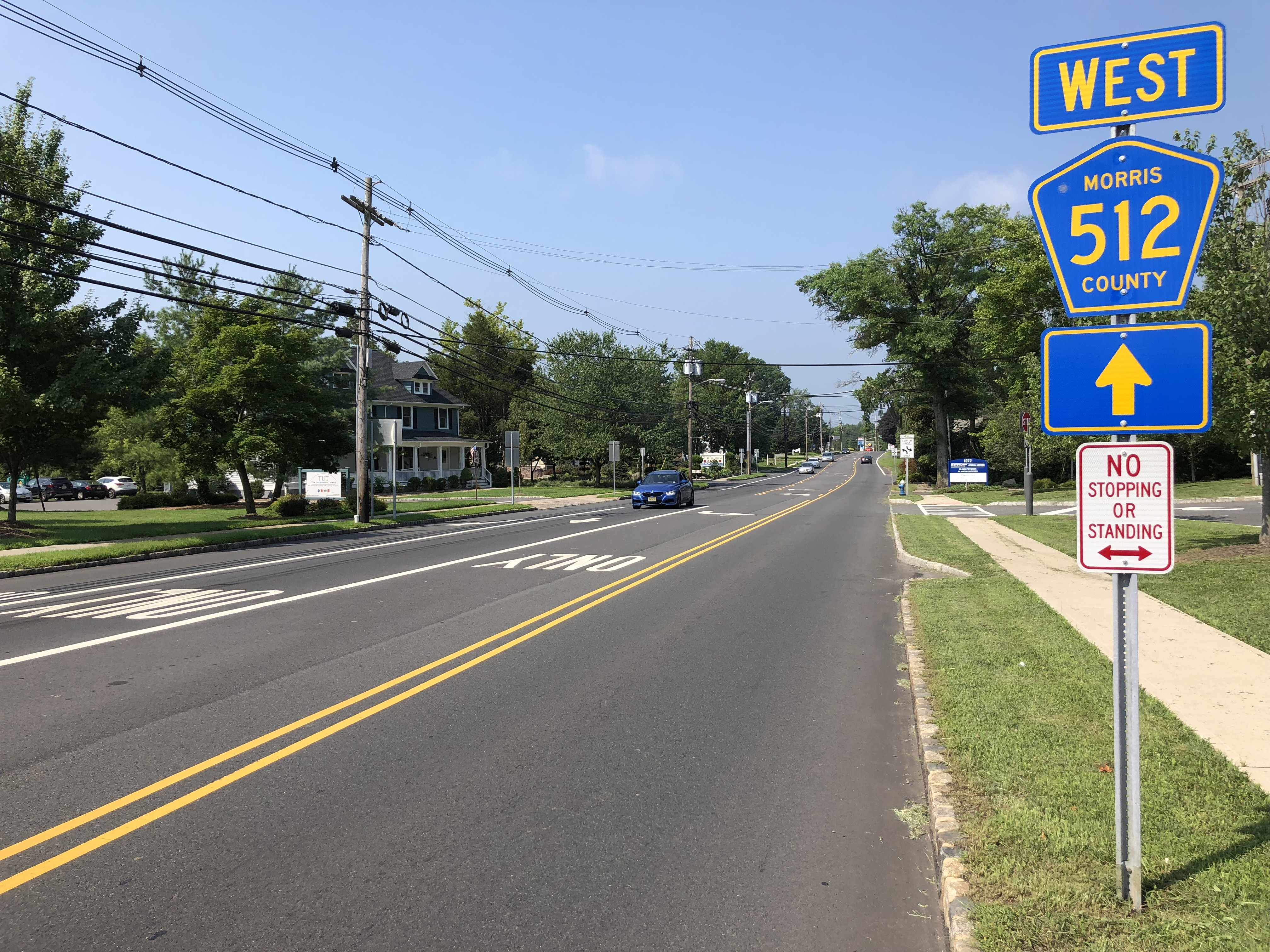 View west along Morris County Route 512 (Valley Road) at Morris County Route 606 (Plainfield Road) in Long Hill Township, Morris County, New Jersey